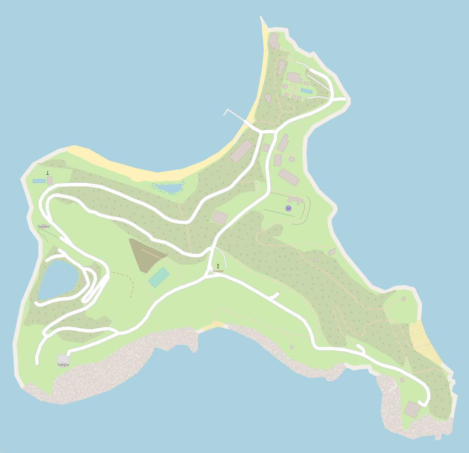 Little Saint James, U.S. Virgin Islands, United States OpenStreetMap cut-out (or derivative work based on it)